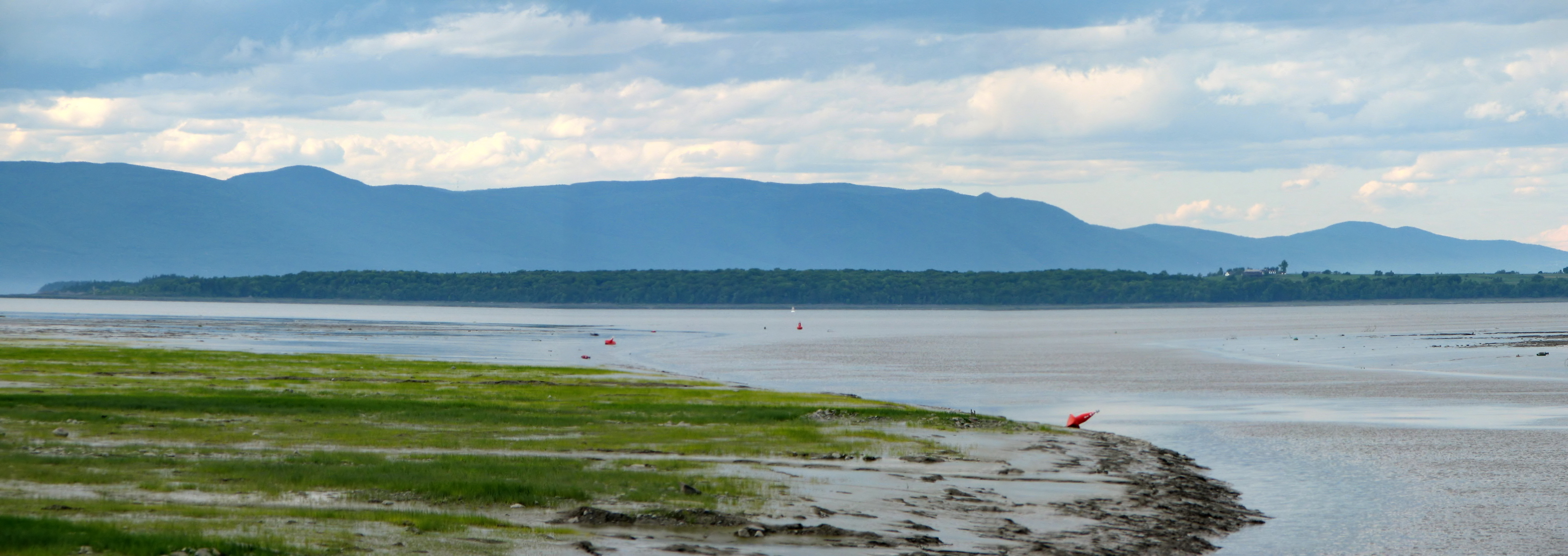 Isle-aux-Grues on the Saint Lawrence River in front of Montmagny, province of Quebec, Canada